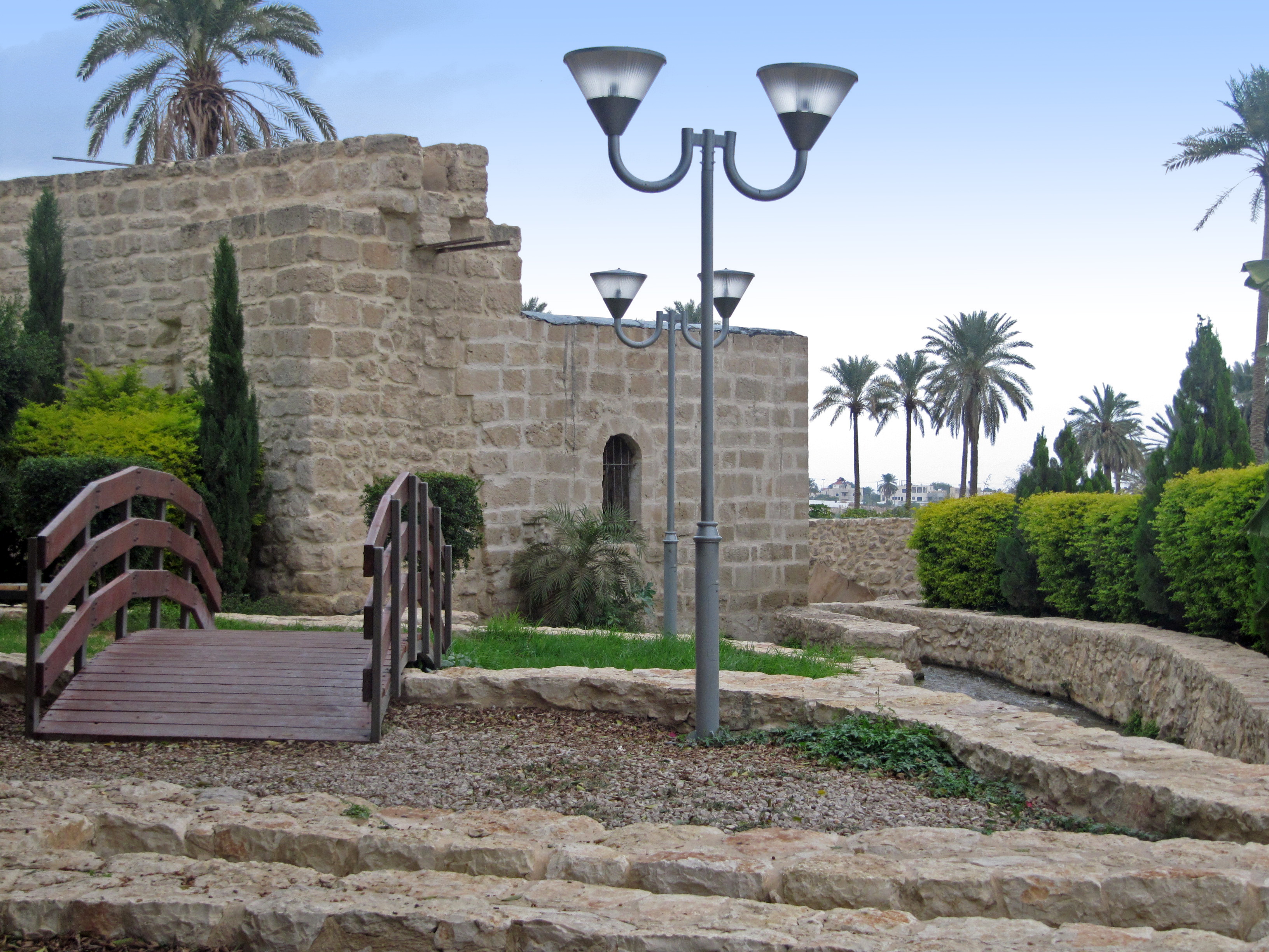 Jericho (more details in the photo's title)